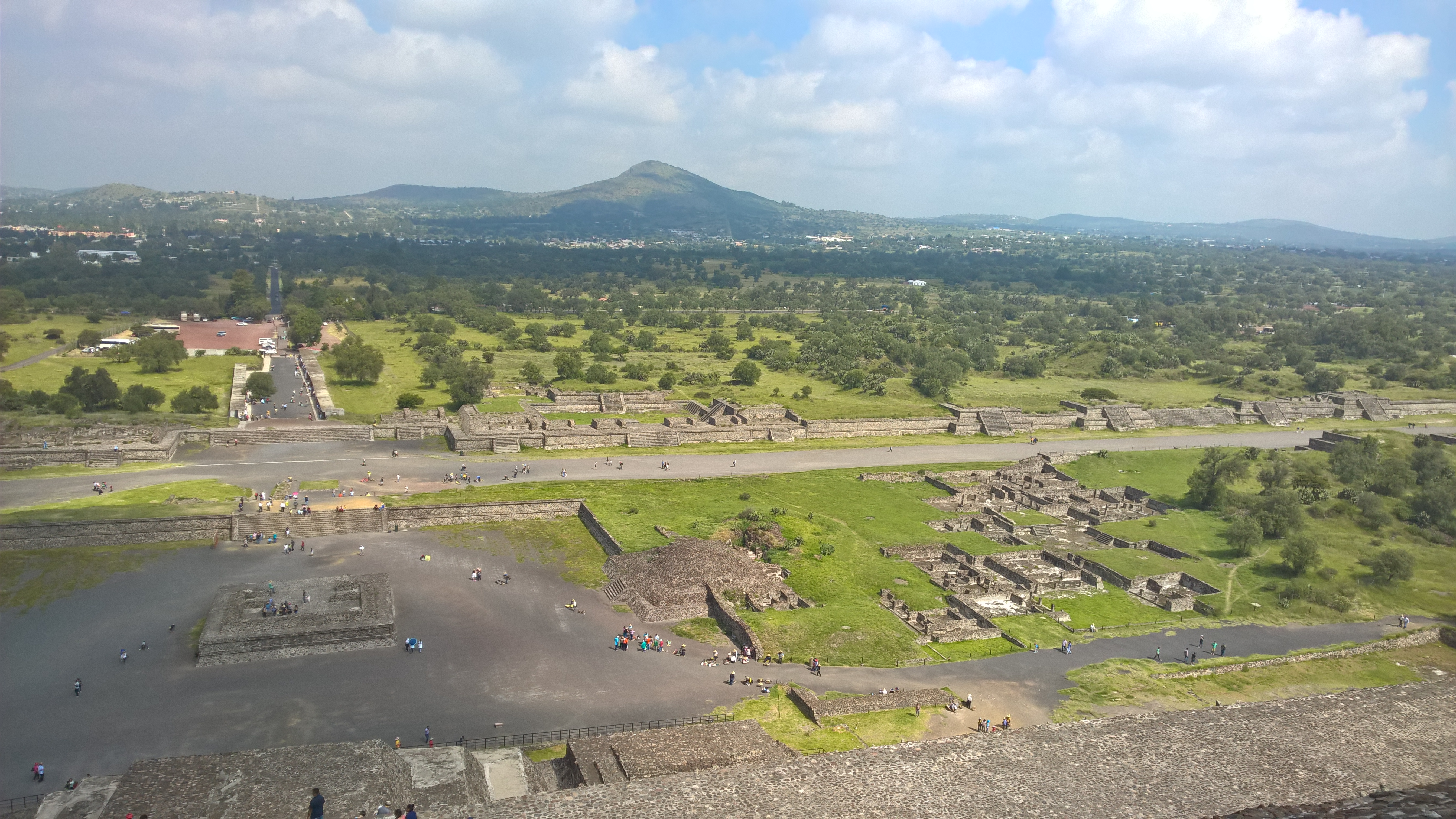 View from Pyramid of the Sun